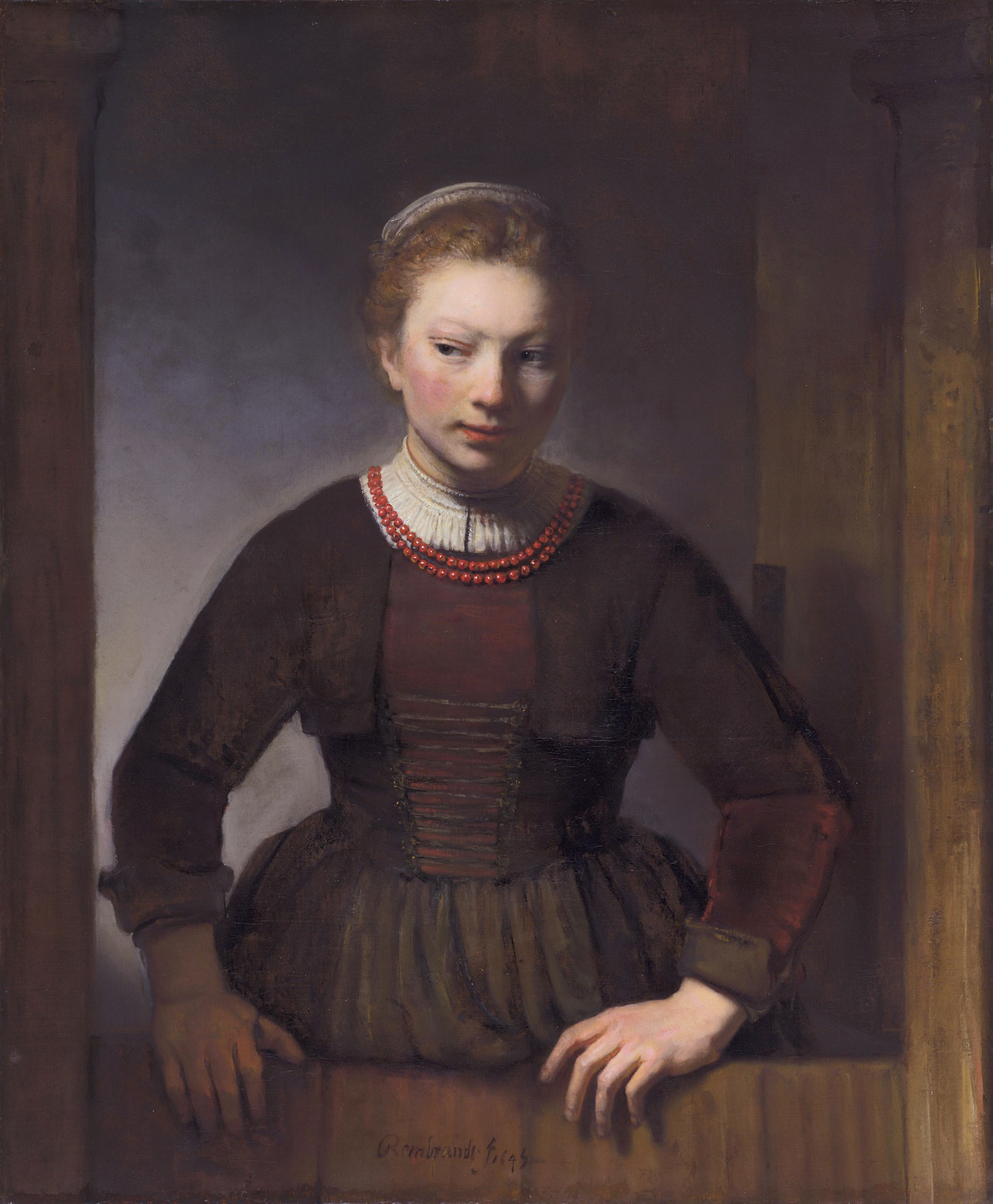 Young woman at an open half-door